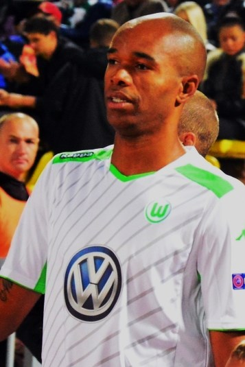 Ronaldo Aparecido Rodrigues